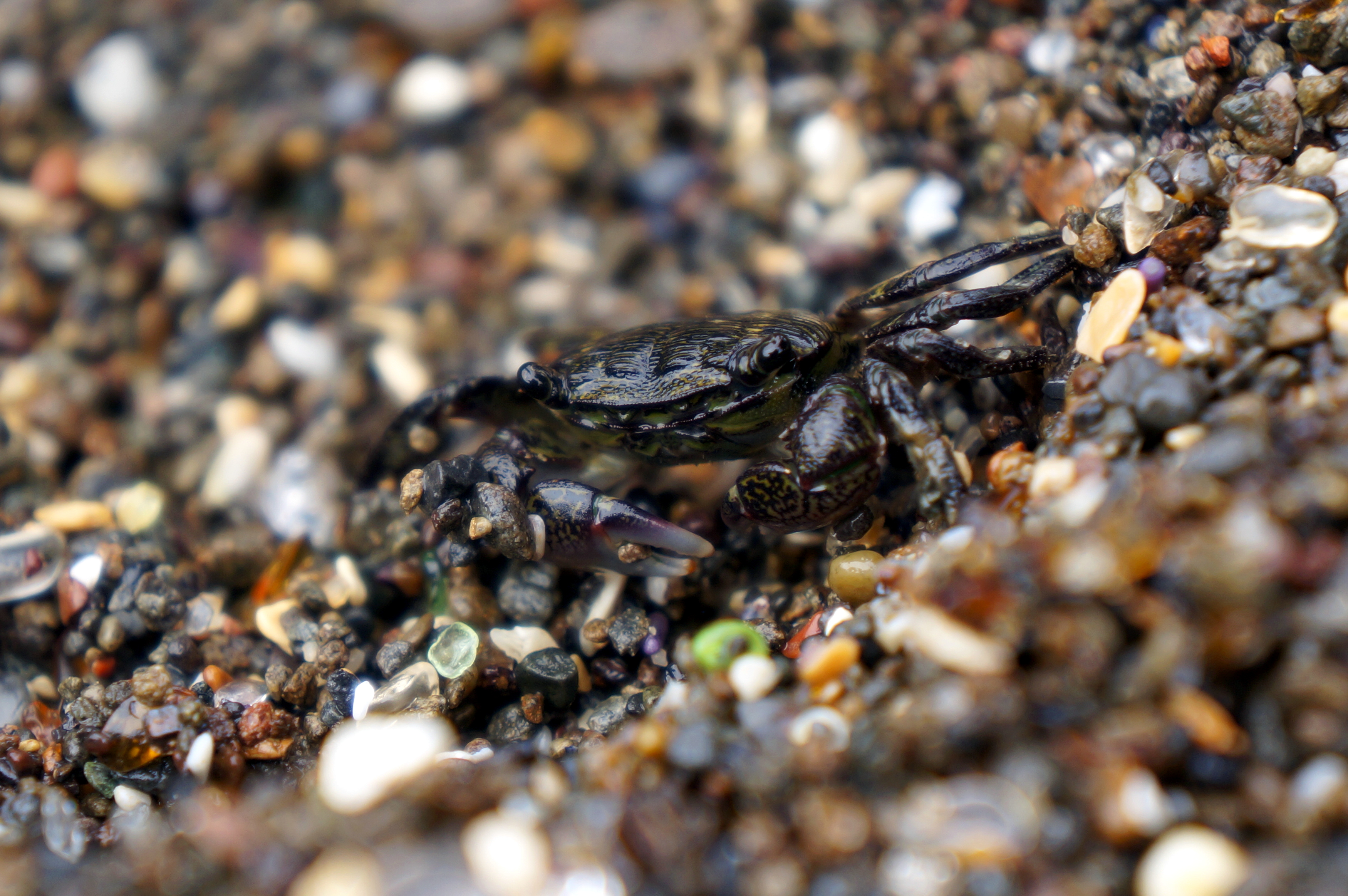 A Striped Shore Crab (Pachygrapsus crassipes) found on the shores of Glass Beach in Fort Bragg, California, US